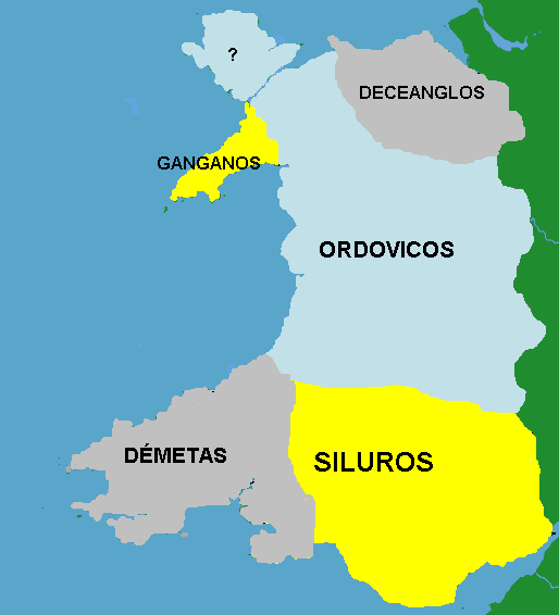 Spanish translation of Tribes of Wales in the Roman period by Rhion